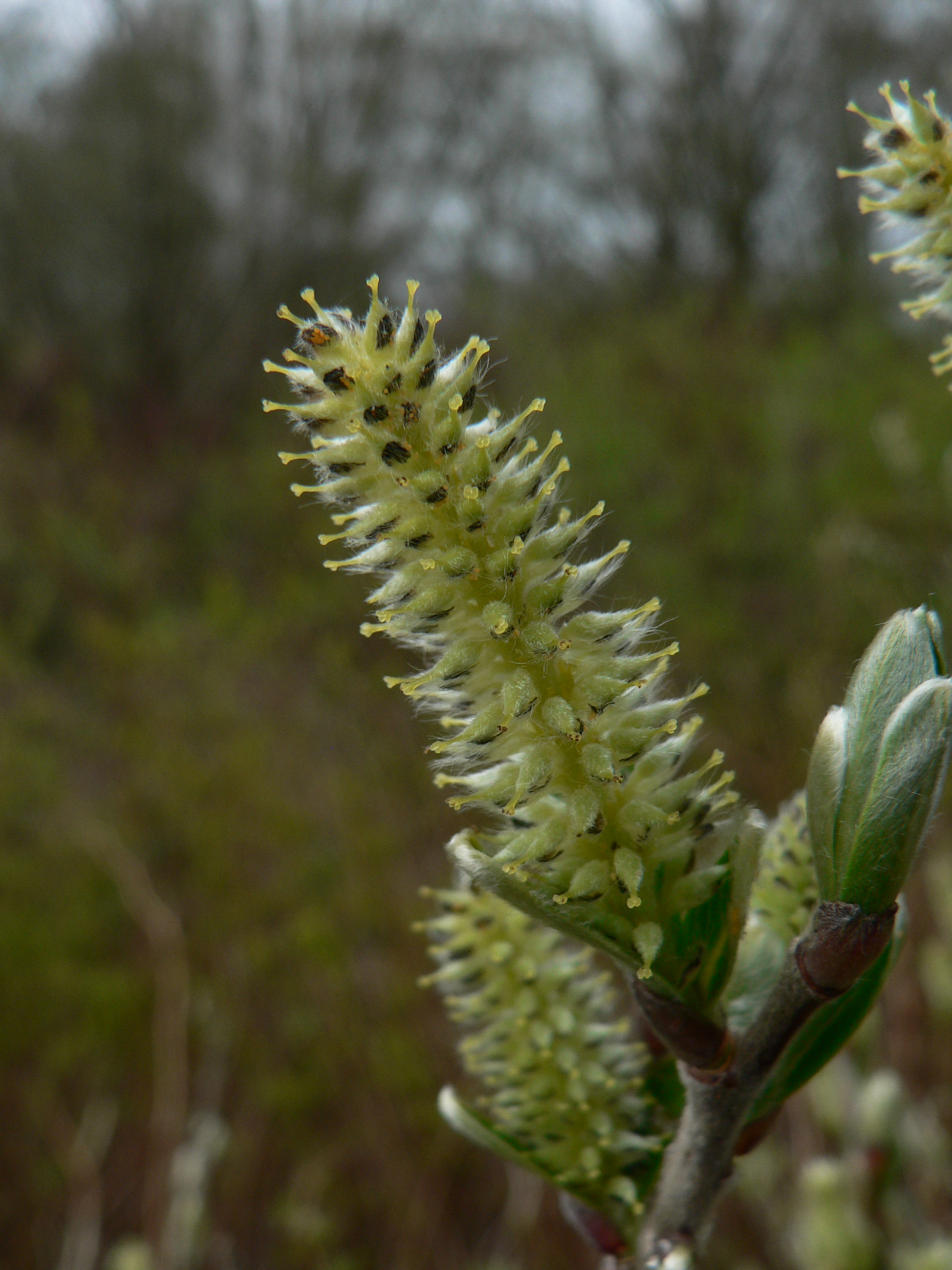 Anacortes, Washington